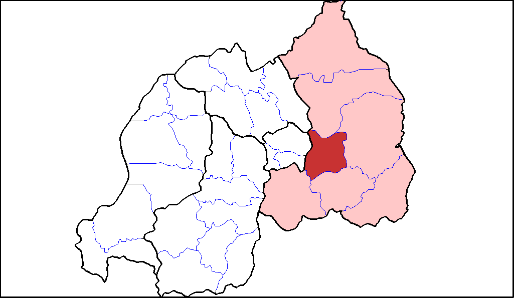 locator map of Rwamagana District, Eastern Province, Rwanda